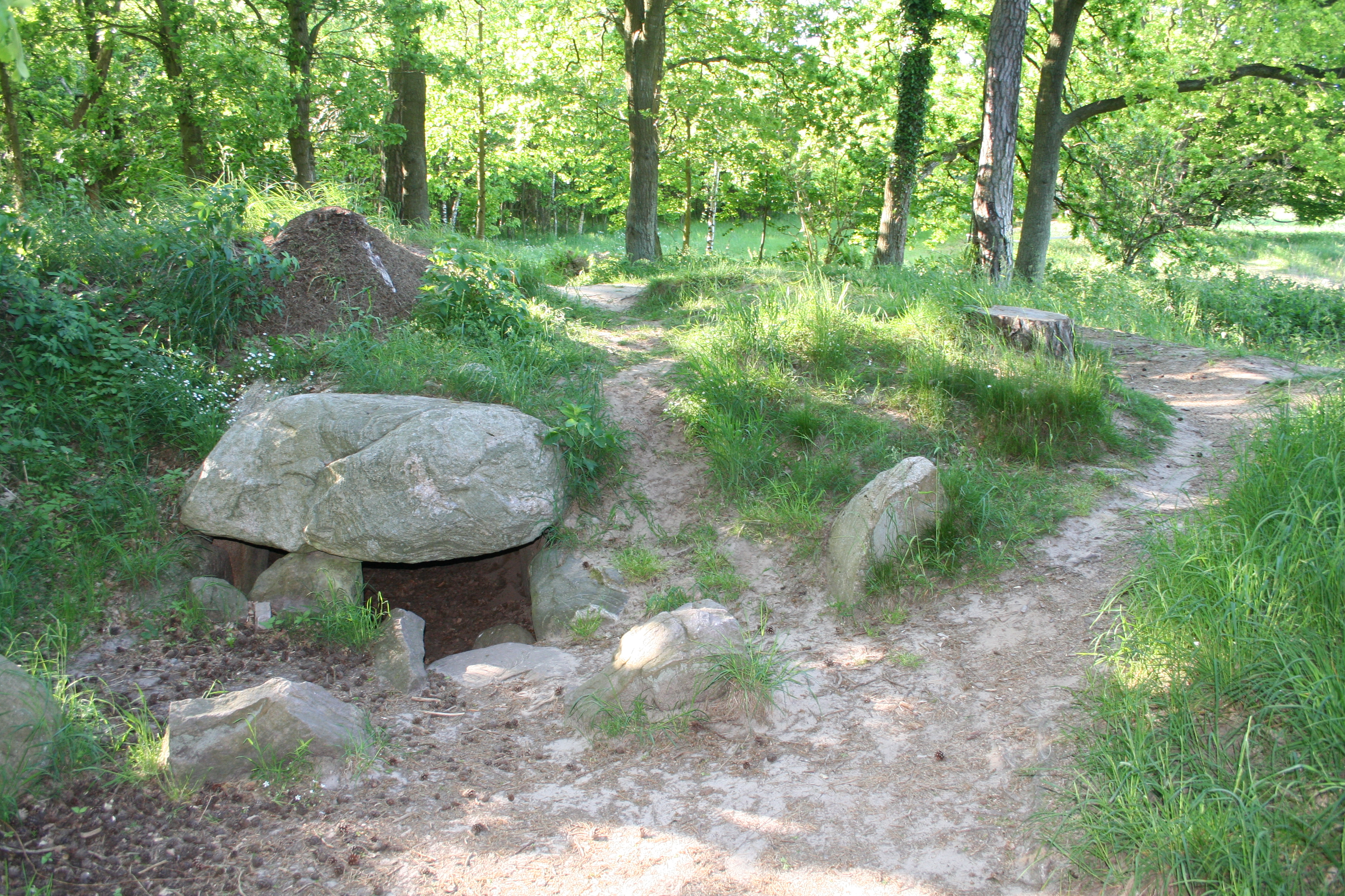 Megalithic tomb Burtevitz 3